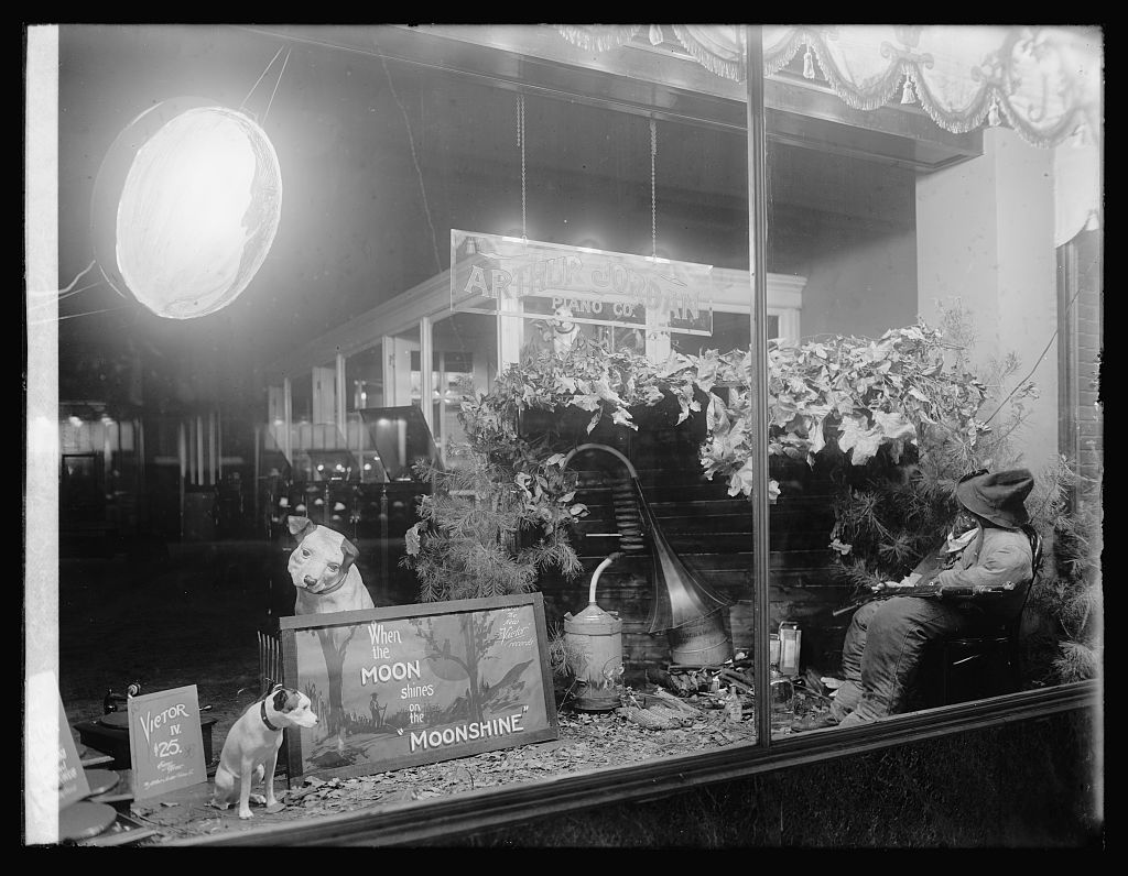 Window of the Arthur Jordan Piano Co. store showing an illustration of the life of a moonshiner. Courtesy of the Prints and Photographs Division, Library of Congress, Washington, D. C.